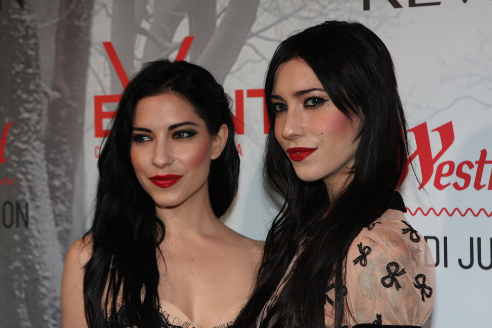 Lisa Origliasso and Jessica Origliasso aka The Veronicas at the Snow White and the Huntsman movie premiere - Bondi Junction, Sydney Australia 2012.